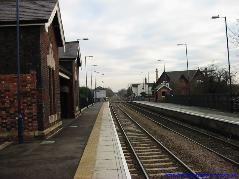 General view of the station looking east